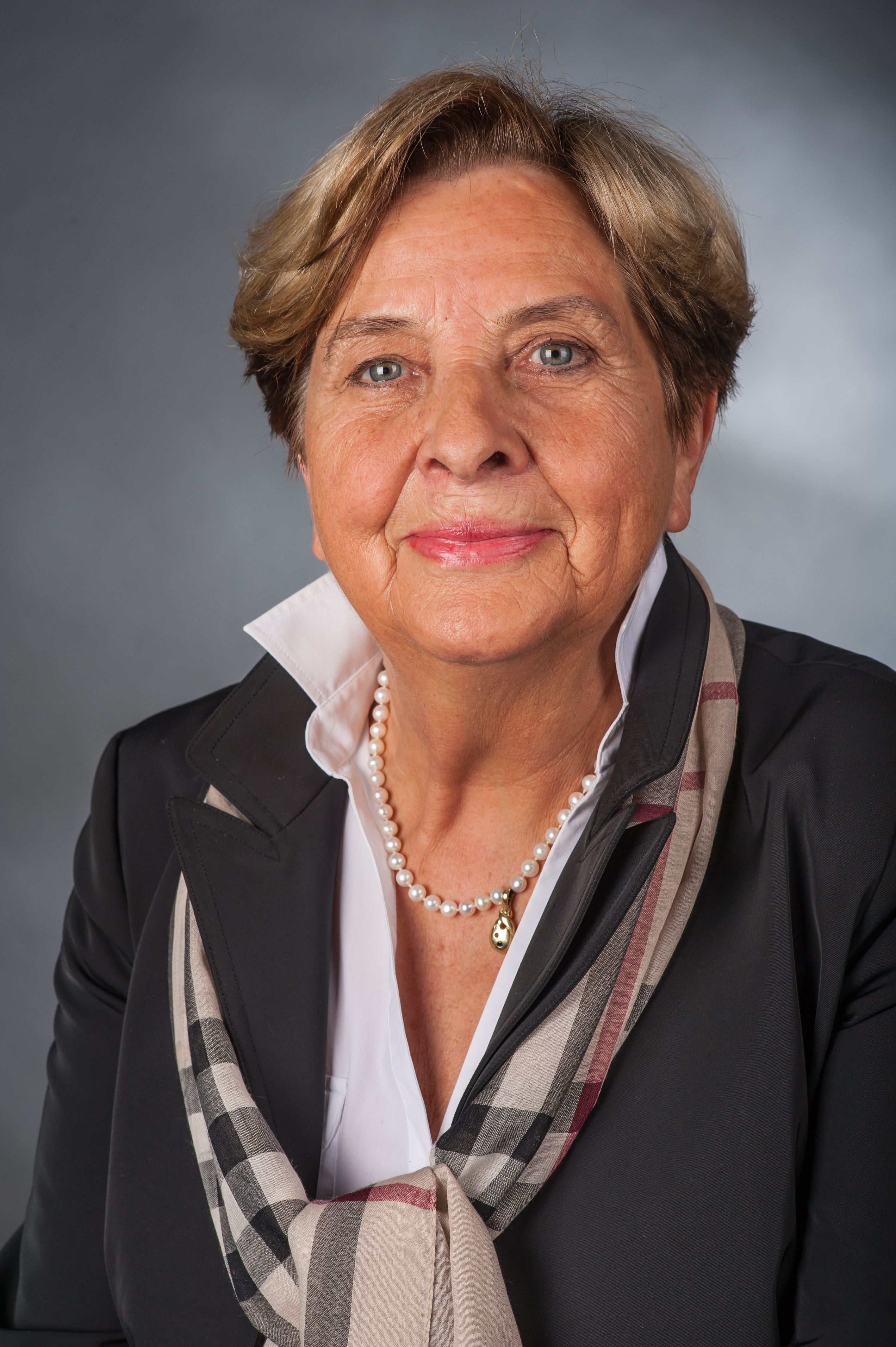 Wikipedia im Landtag – Niedersachsen 17. bis 18. April 2013 in Hannover Personality rights warningAlthough this work is freely licensed or in the public domain, the person(s) shown may have rights that legally restrict certain re-uses unless those depicted consent to such uses. In these cases, a model release or other evidence of consent could protect you from infringement claims.